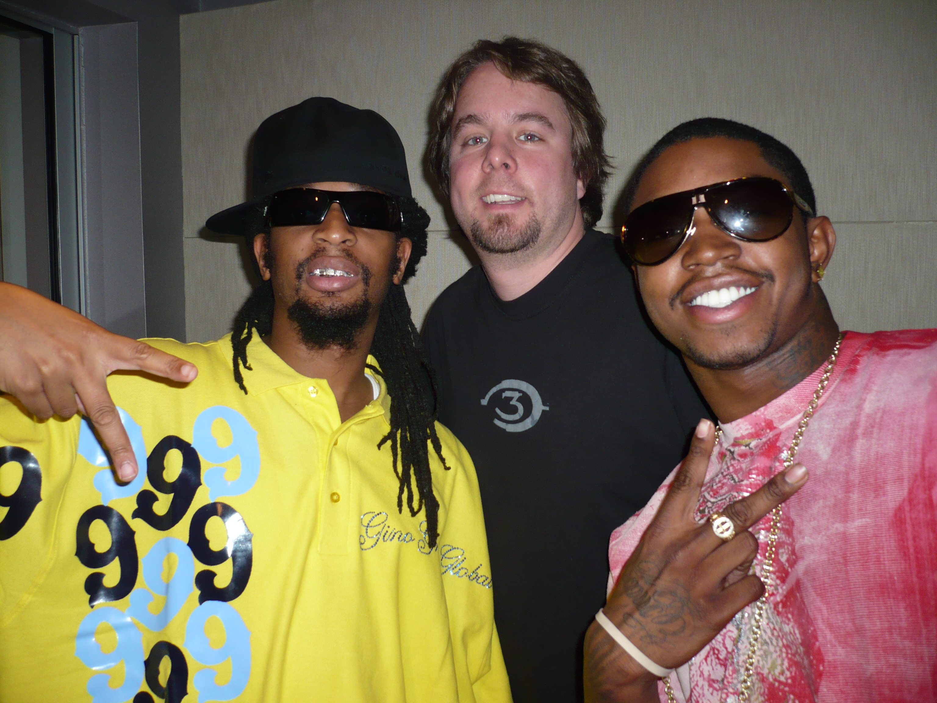 Lil Jon, Brian Jarrard and Lil Scrappy.